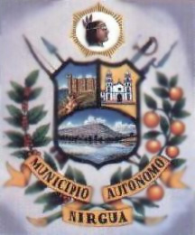 Nirgua Municipality shield (Yaracuy),Venezuela